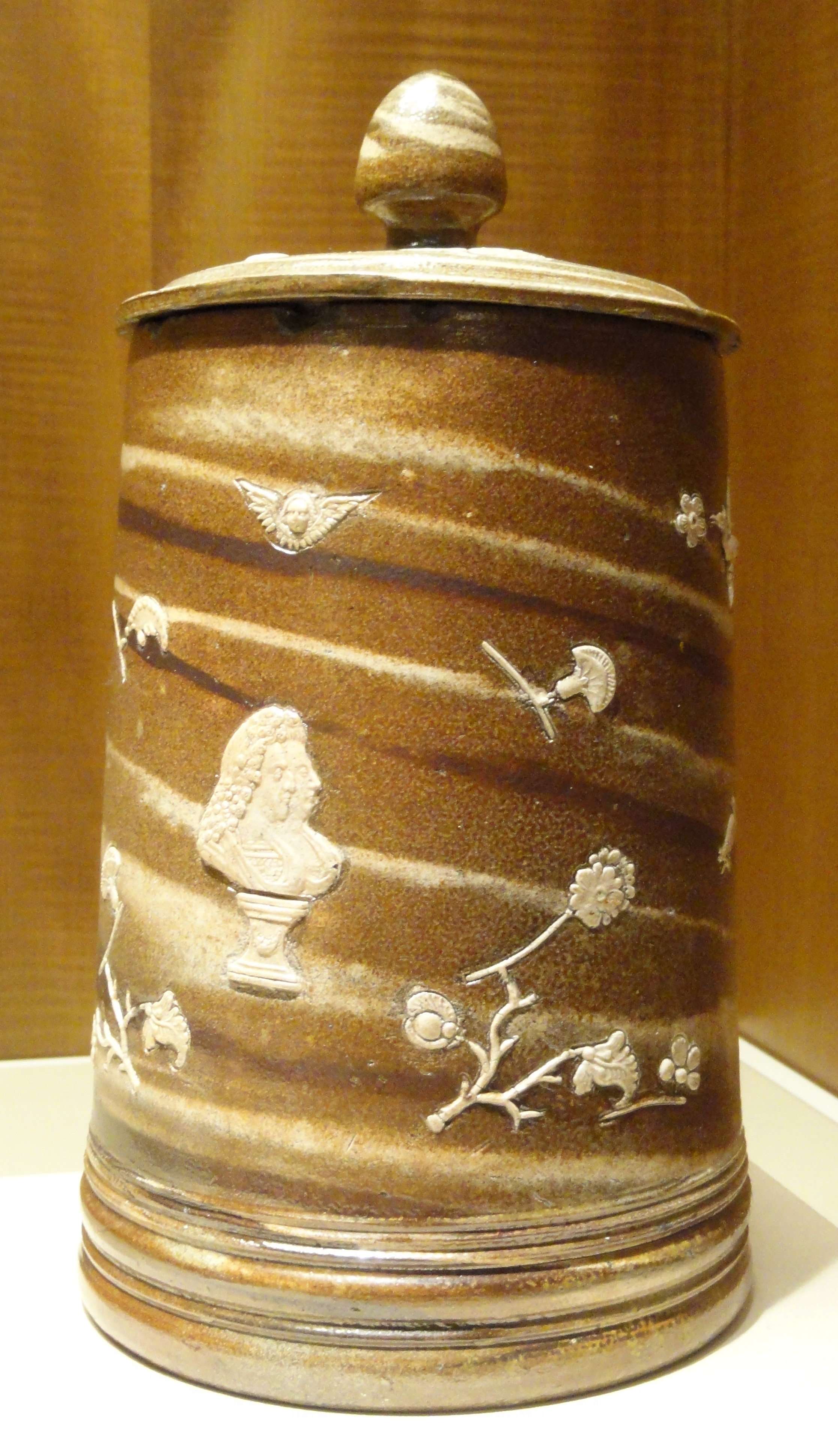 Exhibit in the Nelson-Atkins Museum of Art, Kansas City, Missouri, USA. ; I took this photograph and release it into the public domain.